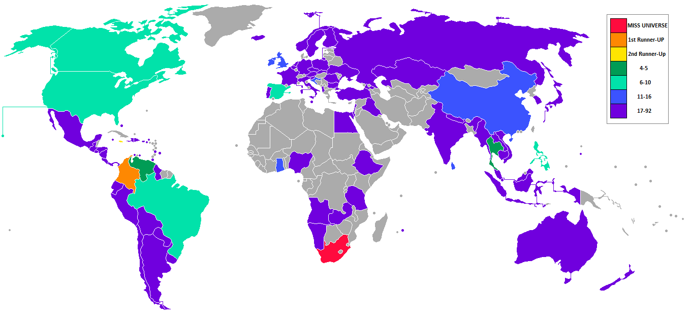 Countries and territories which sent delegates and results for Miss Universe 2017